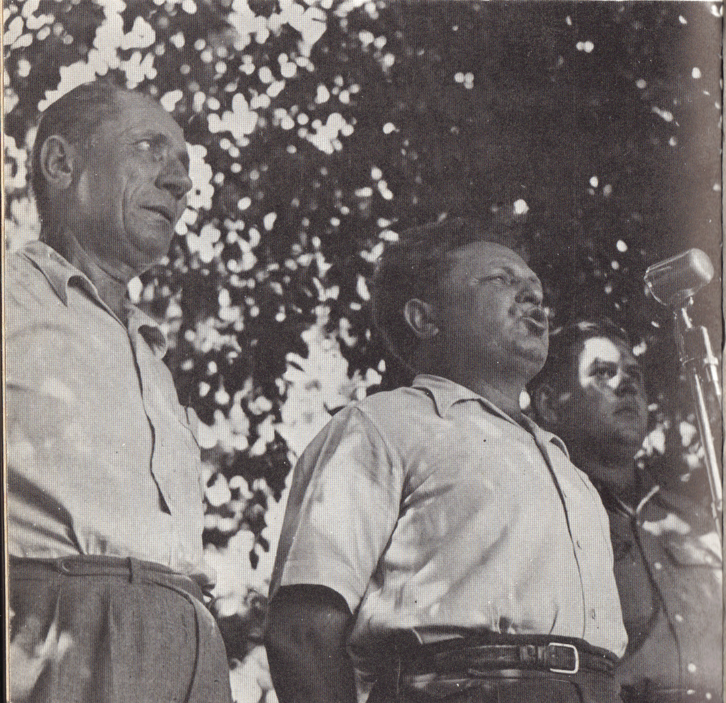 Israel, Yisrael Galili and David Cohen